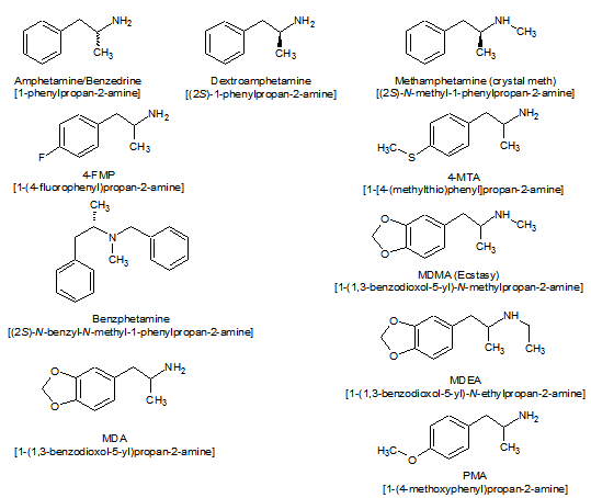 I made it Note: Title says (Meth)amphetamines Also commonly used legal amphetamine derived compounds that deserve mention are phentermine, tranylcypromine and selegiline. Most of the compounds shown are recreational use only.